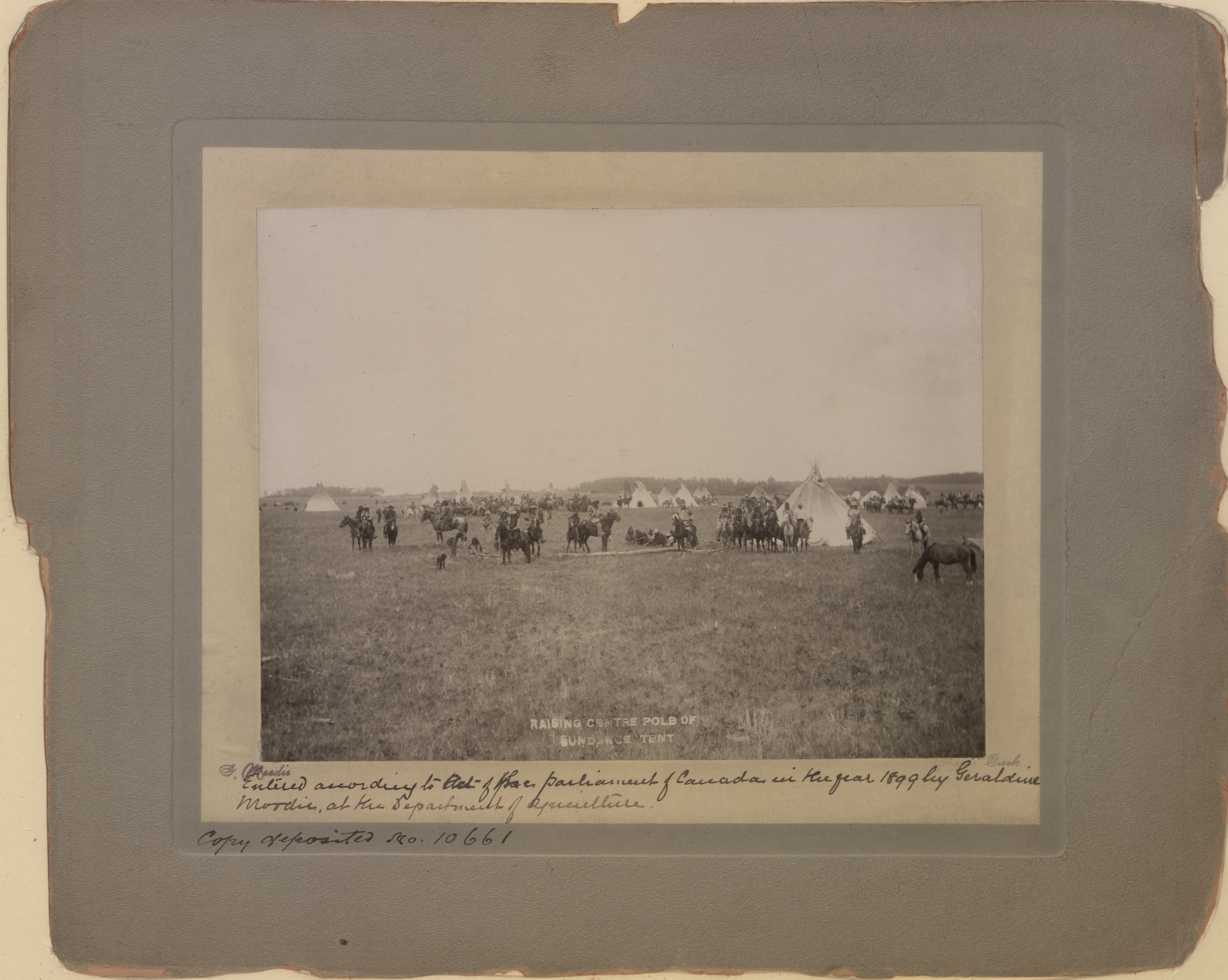 Raising the centre pole, sun dance tent.